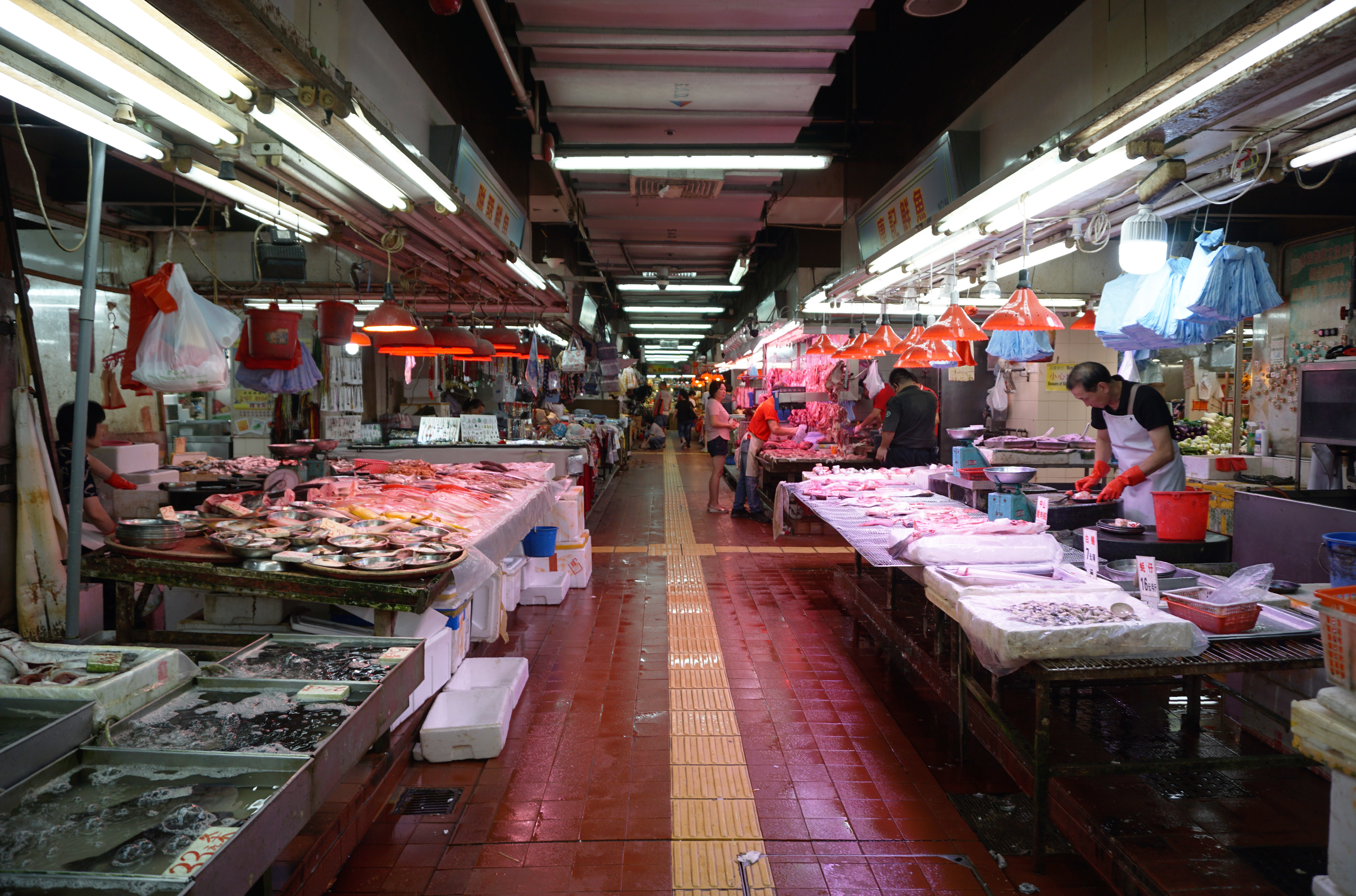 Kwai Chung Market in Kwai Chung, Hong Kong.